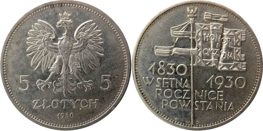 SZTANDAR gleboki - 5 złotych 1930